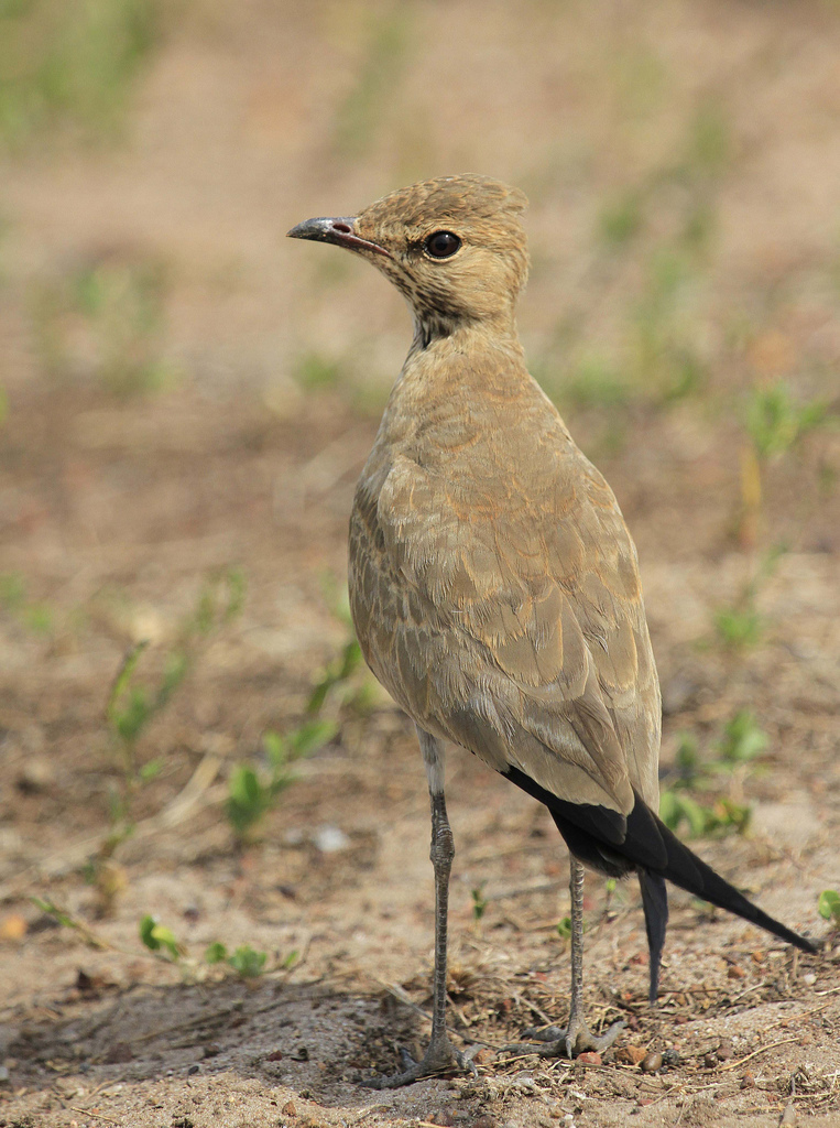 Australian Pratincole - Fogg Dam - Middle Point - Northern Territory - Australia